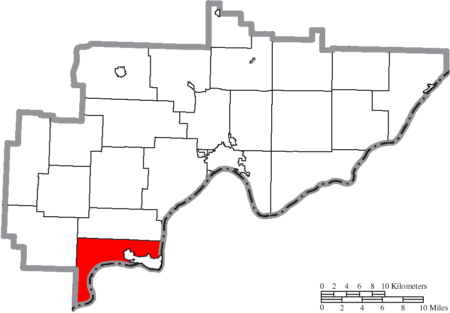 Map of the municipal and township boundaries of Washington County, Ohio, United States, as of the 2000 census, with the location of Belpre Township highlighted. Township borders are shown only in unincorporated areas in order to differentiate incorporated and unincorporated areas more clearly.